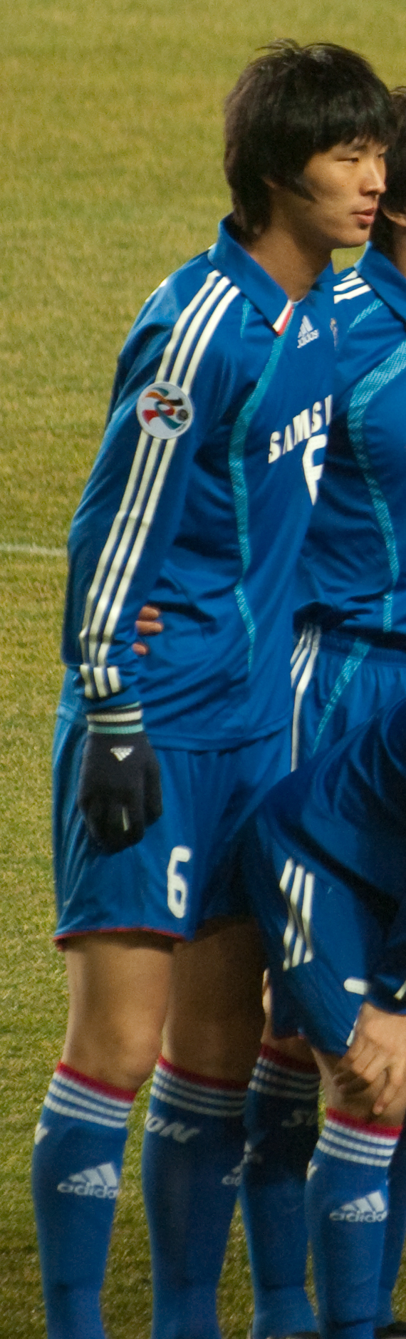 AFC Champions League 2009 Squad of Suwon Samsung Bluewings at 11 Mar 2009 against Kashima Antlers of J-League.